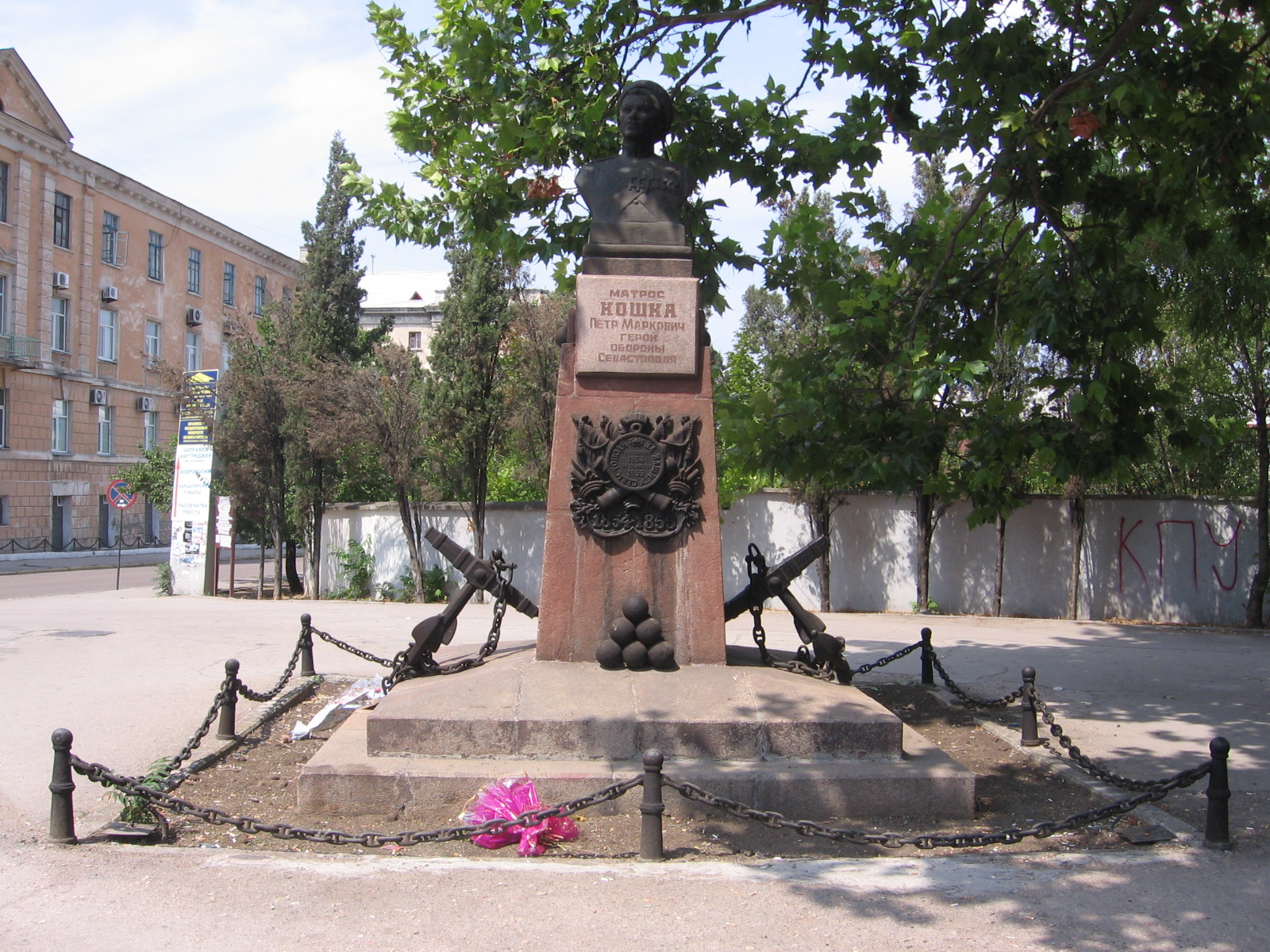 Monument to sailor Pyotr Koshka in Sevastopol. Built on May 26, 1956, sculptors Joseph Keyduk and Vasily Keyduk, architect V.P.Petropavlovsky. It is one of the monuments to Heroic Defense of Sevastopol in 1854-1855.